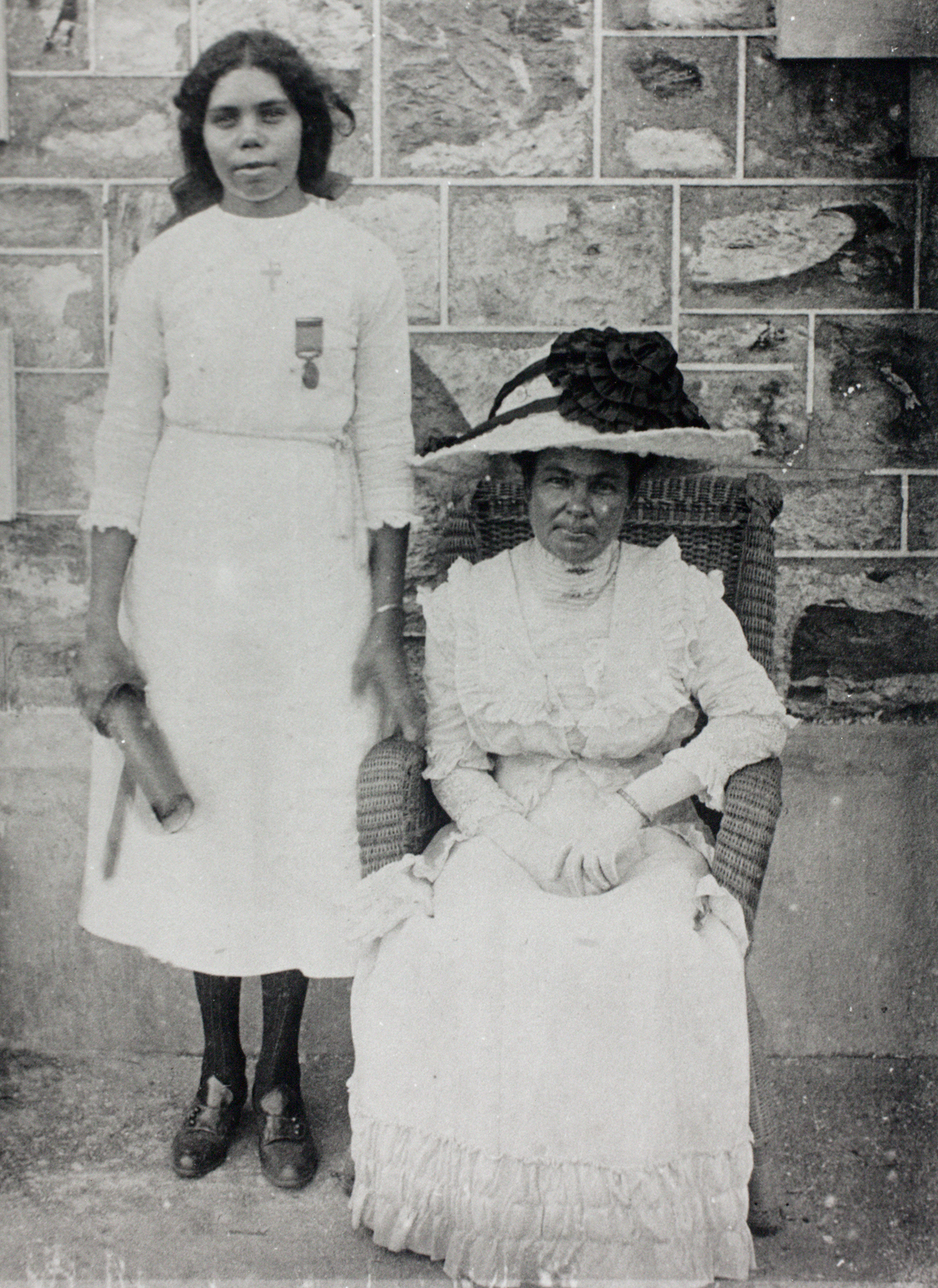 Maid servant Cissie McLeod stands by Mrs Mugg (B. James) seated in cane chair outside Government House in Darwin in the Northern Territory of Australia. (PH0412-0025)